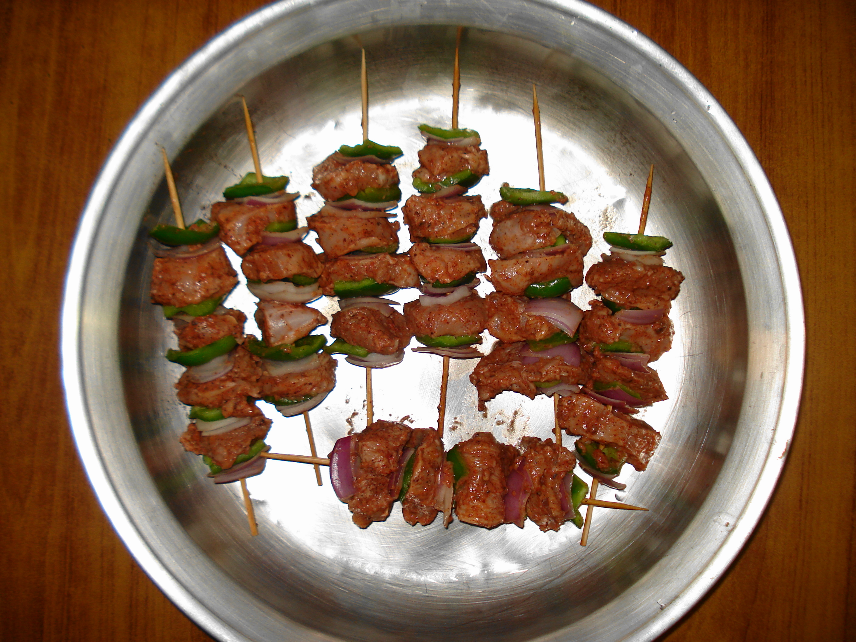 Shish Taouk